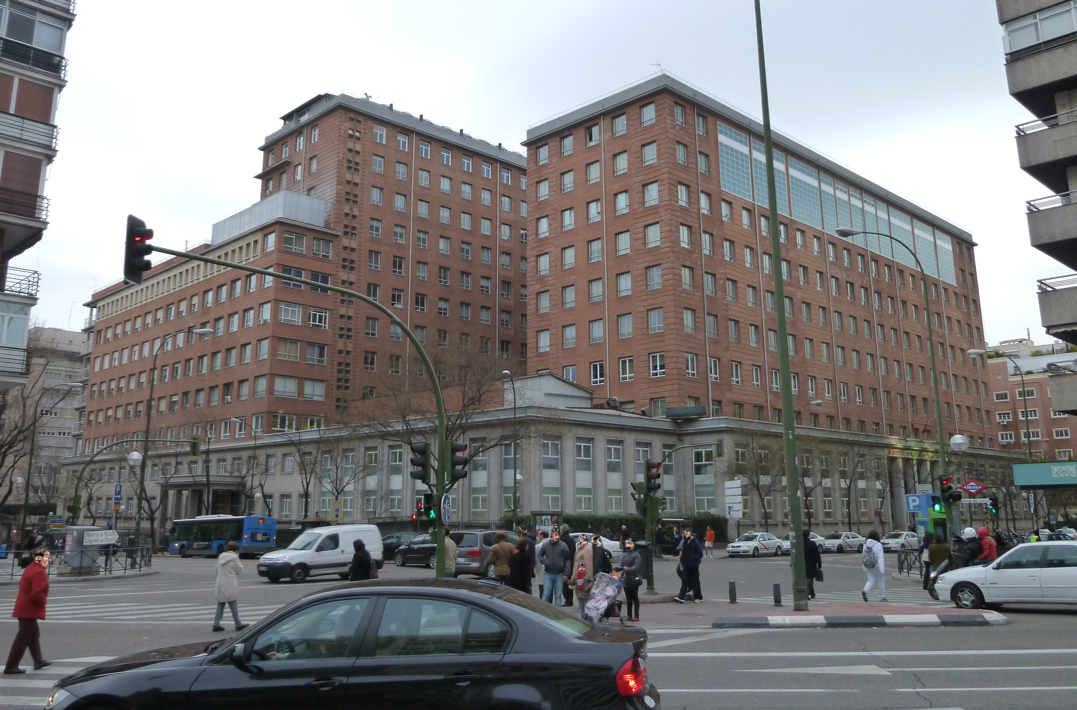 View of Hospital de la Princesa in Madrid (Spain) from the north-east angle. Address: 61 Calle de Diego de León (street) in Salamanca district. Building was projected in 1952 by Manuel Martínez Chumillas and built between 1952 and 1956.